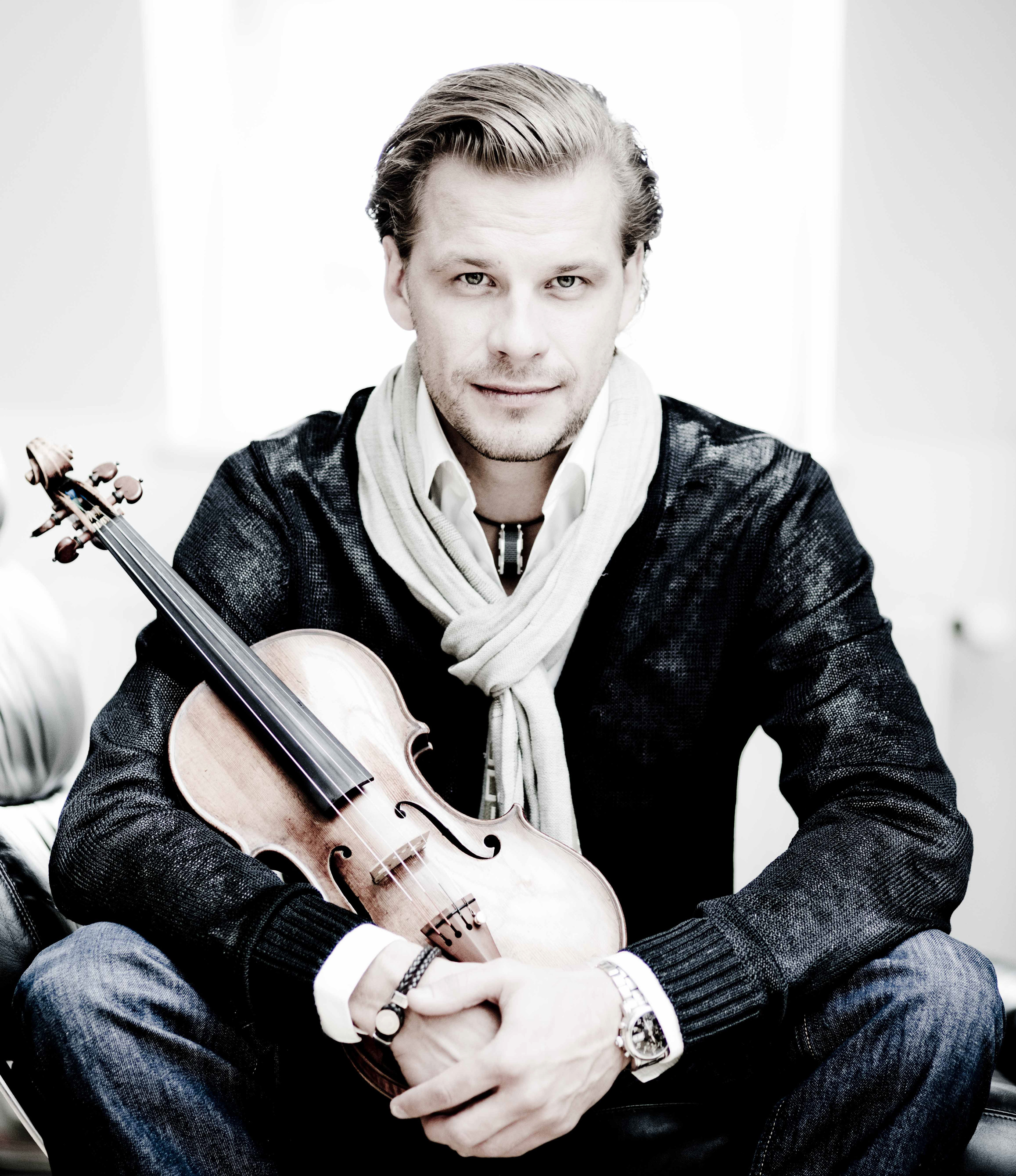 Violinist Kirill Troussov with the violin "Brodsky" manufactured by Antonio Stradivari in 1702